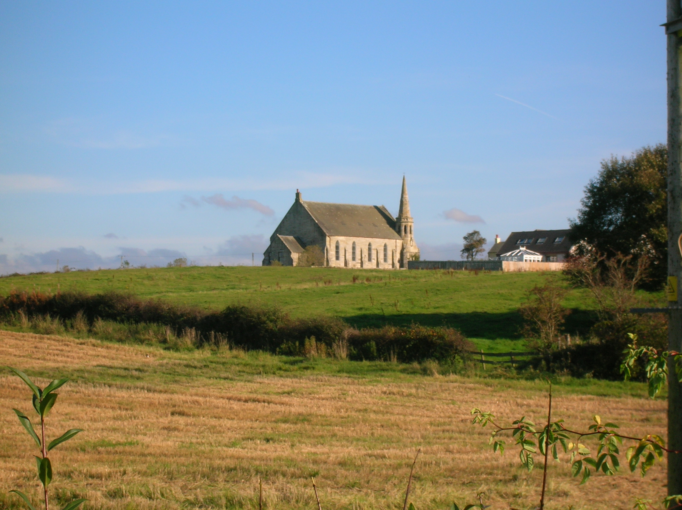 Fergushill church at Benslie, near Kilwinning, North Ayrshire, Scotland. Roger Griffith. October 2007.